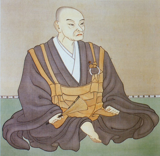 Hōjō Sōun (1432–September 8,1519) was the first head of the late Hōjō clan, one of the major powers in Japan's Sengoku period.